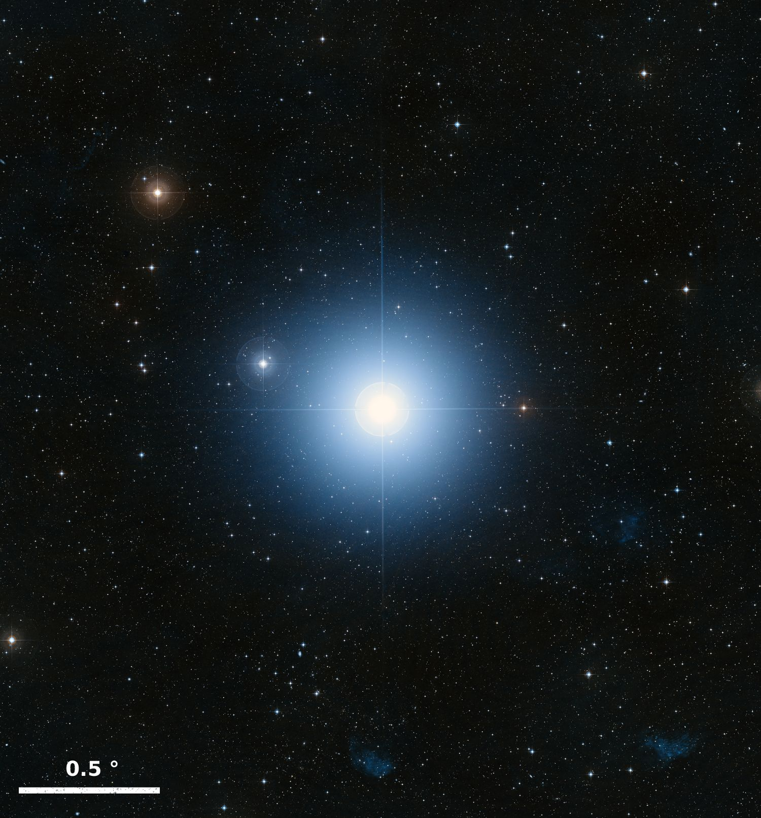 This image shows Fomalhaut, the star around which the newly discovered planet orbits. Fomalhaut is much hotter than our Sun, 15 times as bright, and lies 25 light-years from Earth. It is blazing through hydrogen at such a furious rate that it will burn out in only one billion years, 10% the lifespan of our star. The field of view is 2.7 x 2.9 degrees.